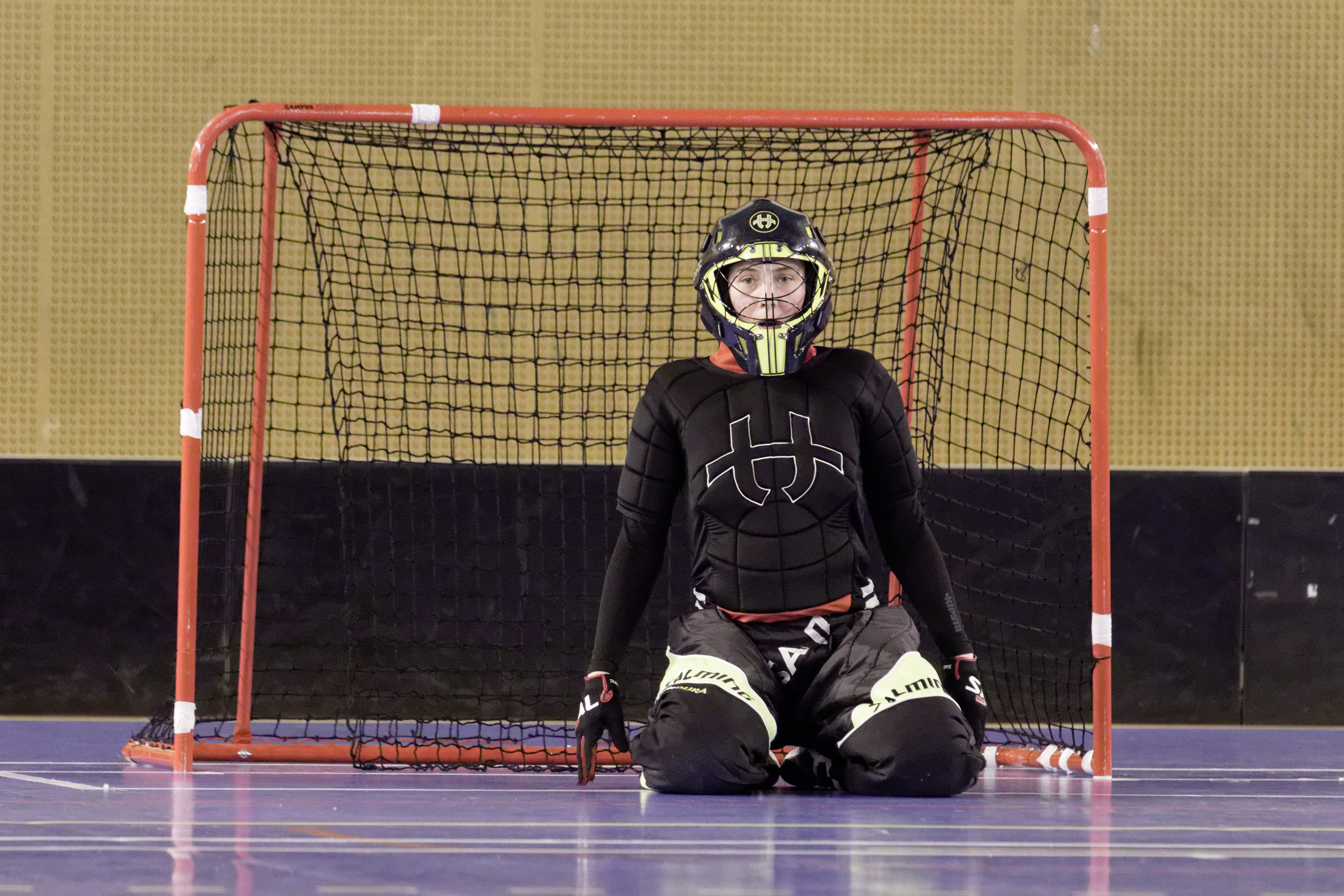 French Women's Floorball Championship, 11 April 2015. Panam United vs Lady Storm.